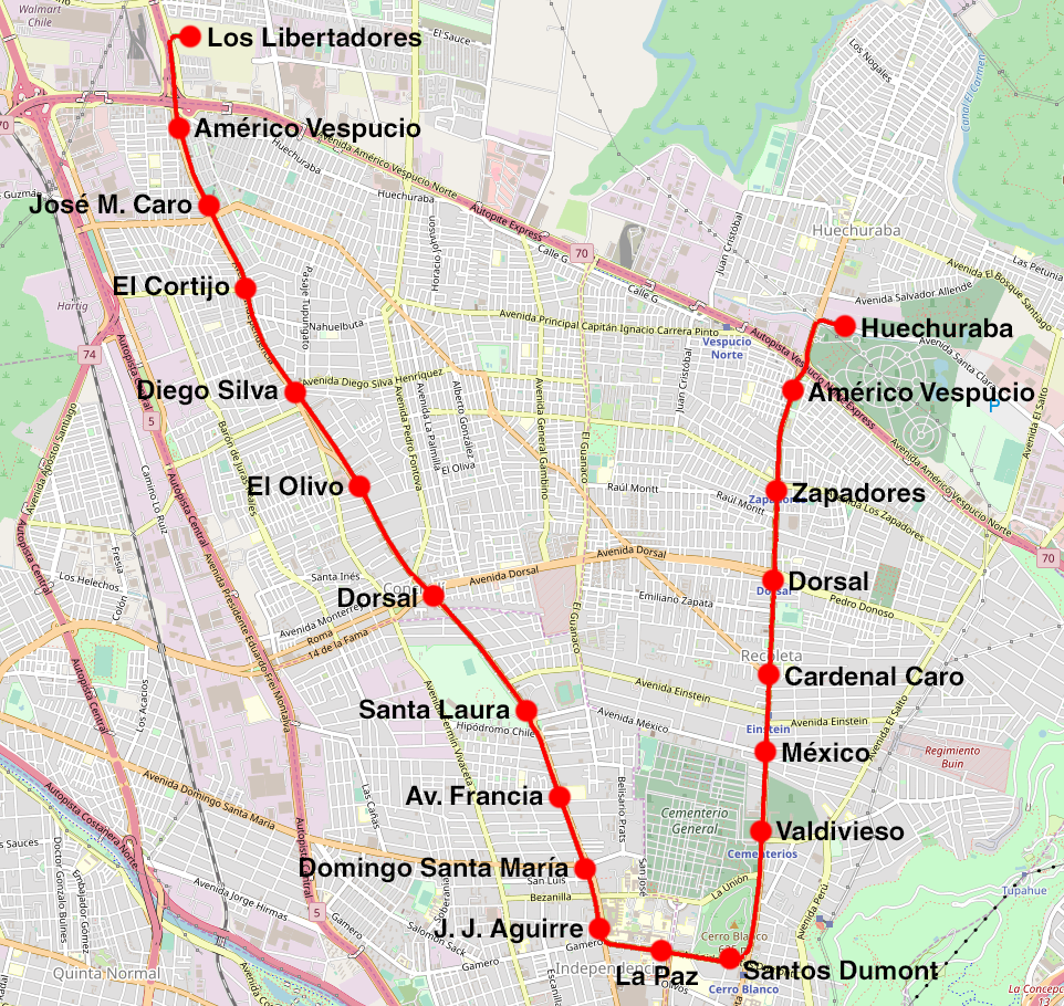 Mapa del trazado del proyecto de metro ligero presentado en 2001 This map may be incomplete, and may contain errors. Don't rely solely on it for navigation.